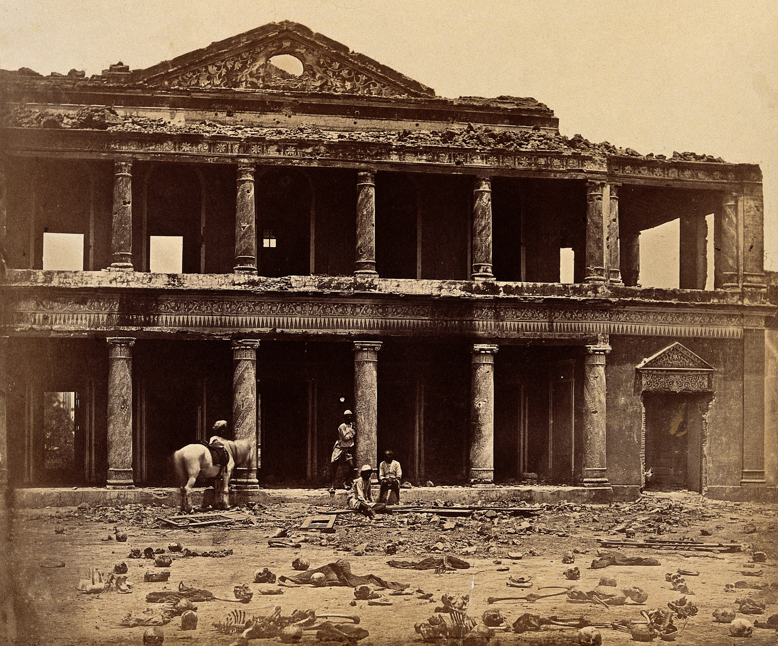 Macao Island: Penha Hill and the bay encircled by the Praya Grande. Photograph. Iconographic Collections Keywords: Felice Beato